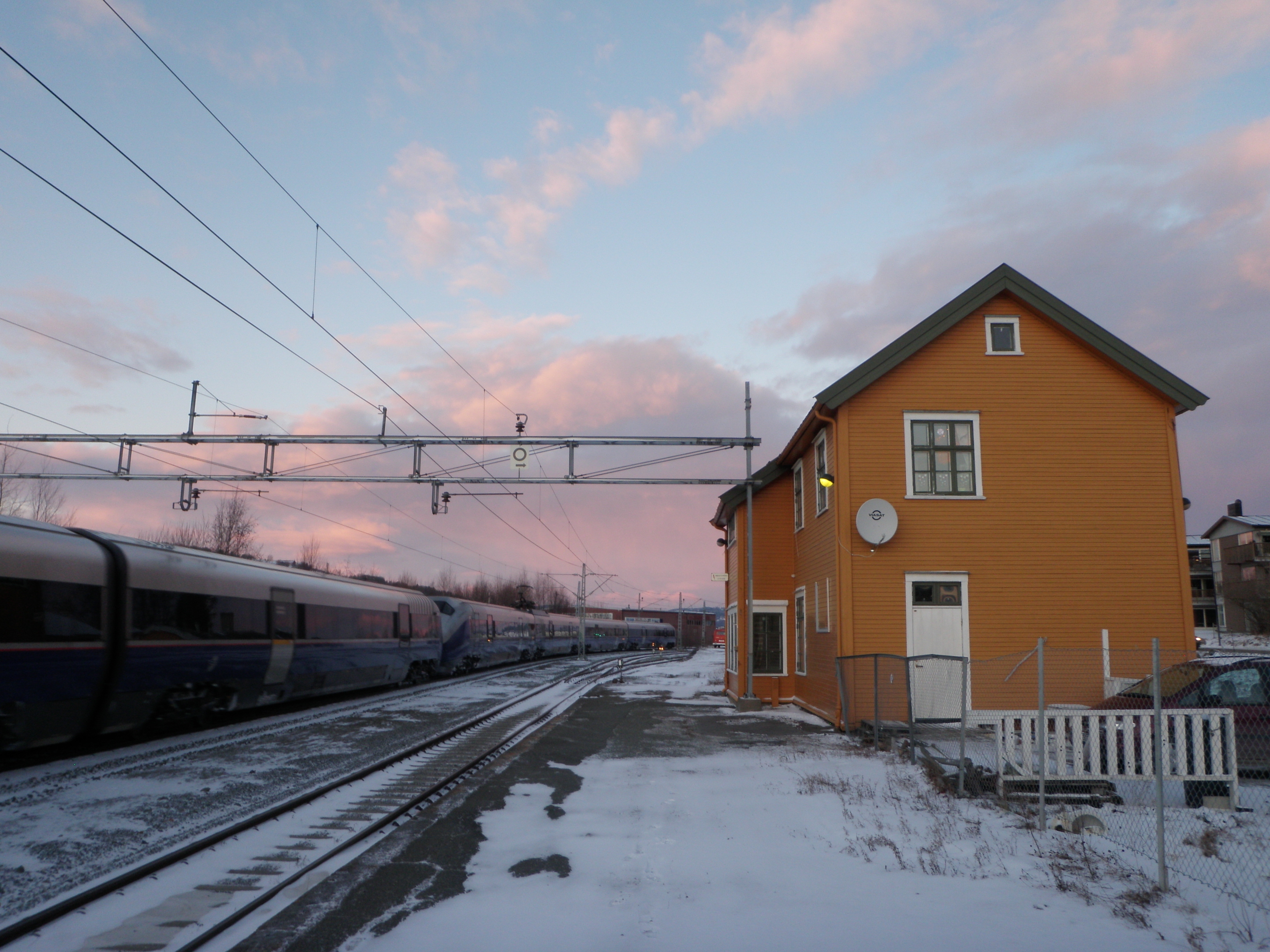 The station building at the old, decommissioned, Melhus Station in Melhus, Sør-Trøndelag, Norway. The new station is nearby. Passing by is a NSB Class 73 train.